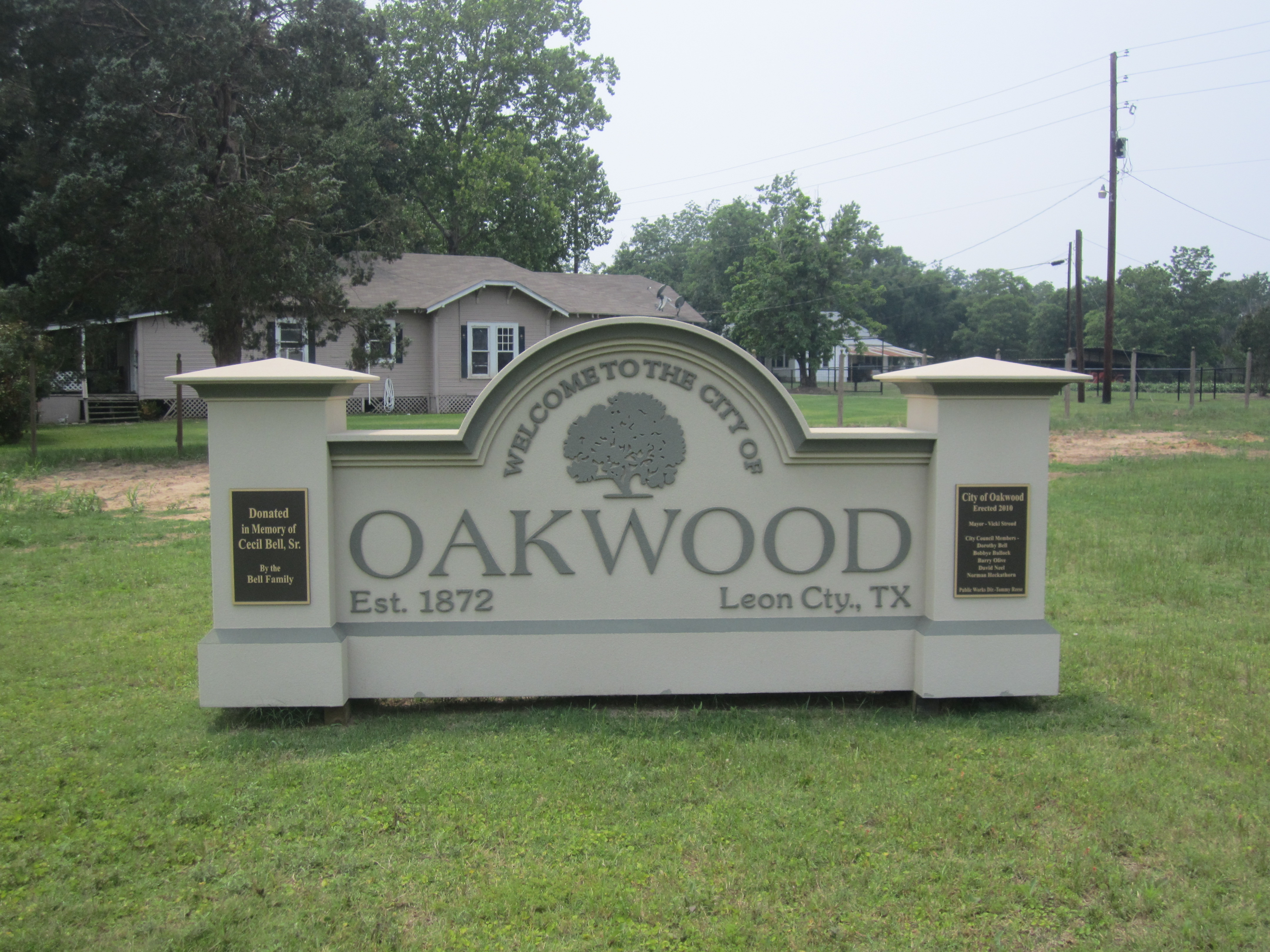 I took photo of Oakwood sign with Canon camera in Oakwood, TX.